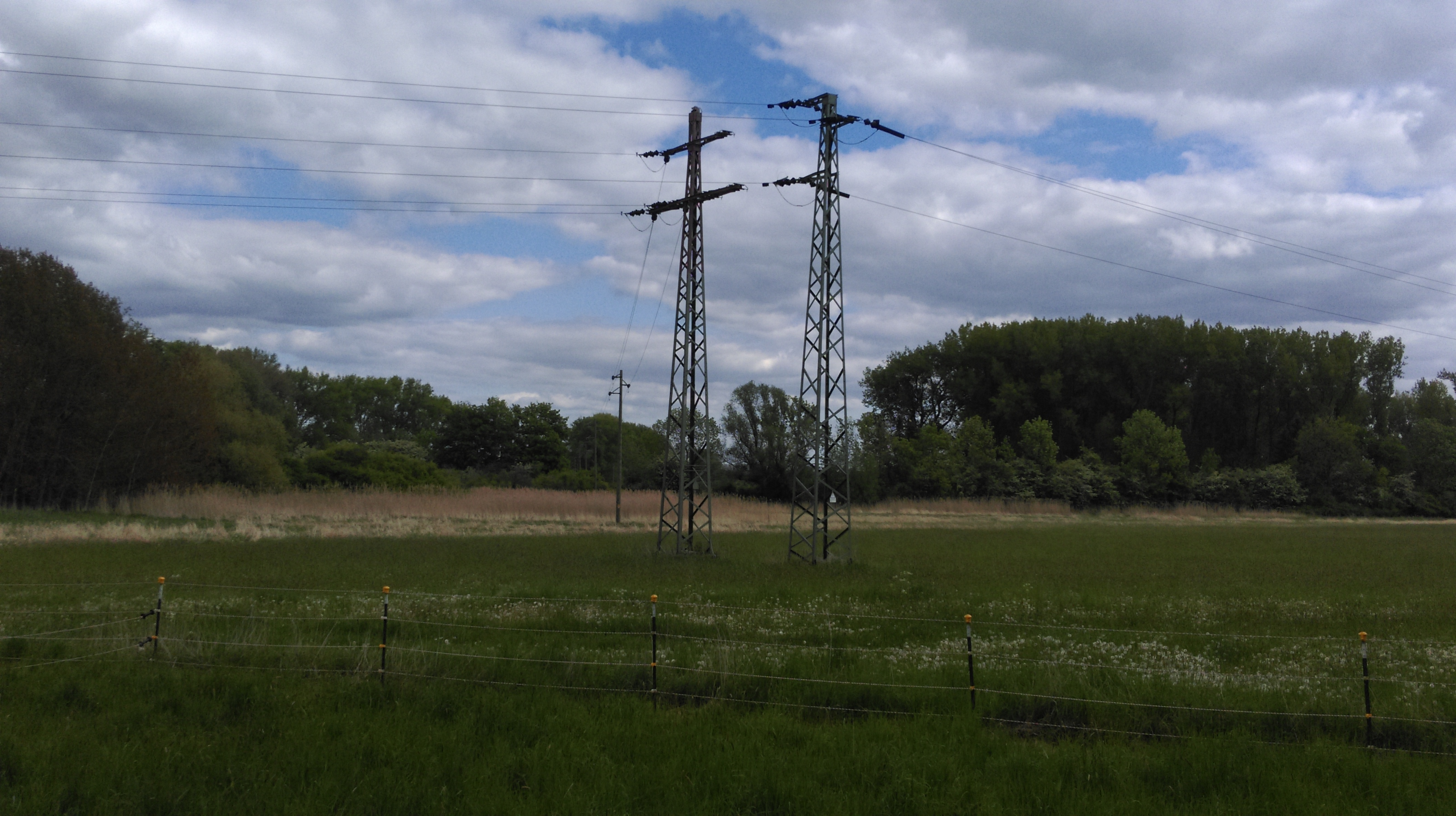 two minor lines on old lattice poles near Börßum Wasserwerk